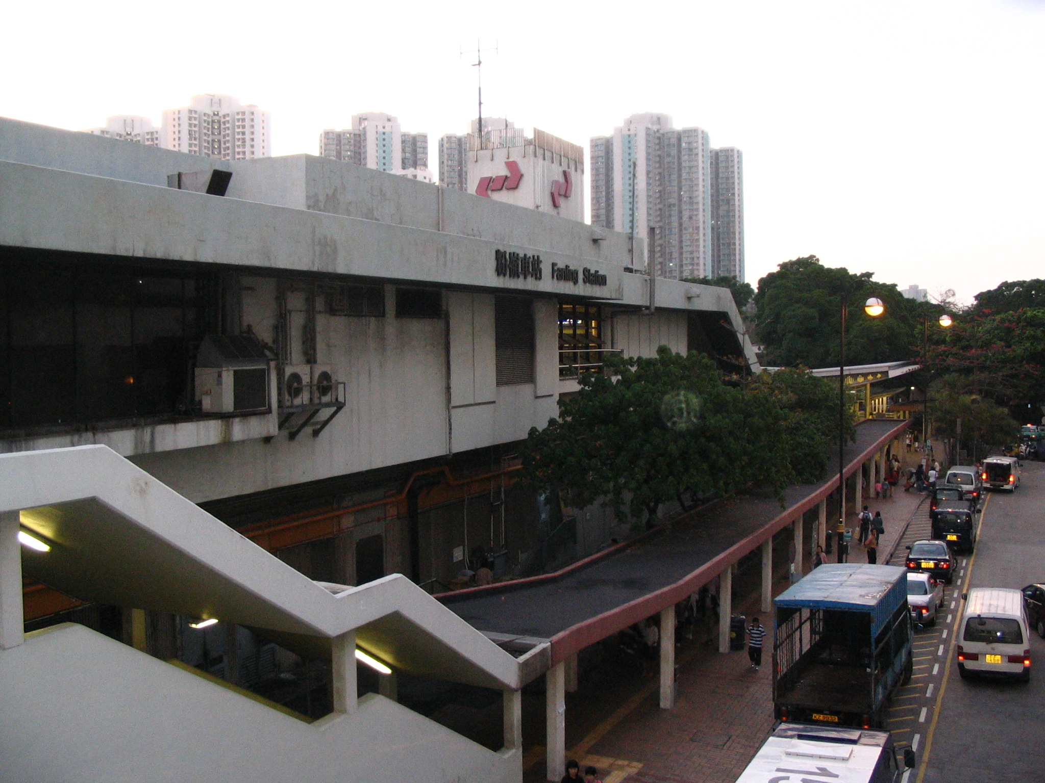 Fanling Station exterior